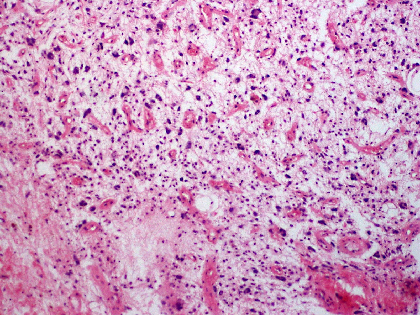 Myxoid liposarcoma